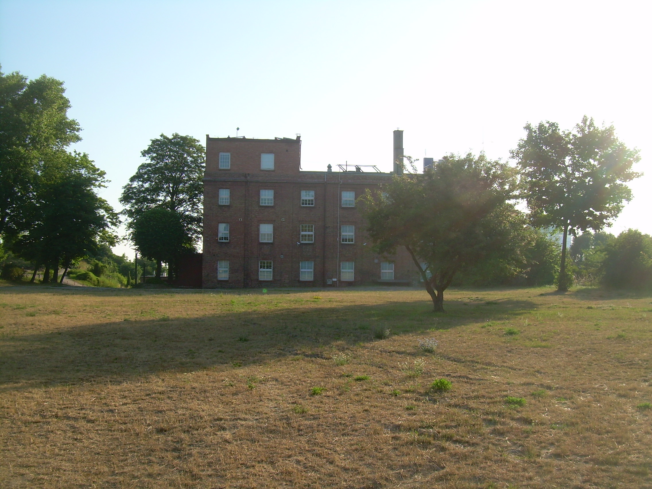 Góra Gradowa in Gdańsk.